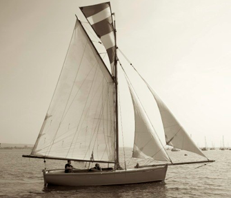 Nellie sailing in Fareham Lake just after launching following phase 2 of her restoration by Scott Waddington of Wicormarine Ltd